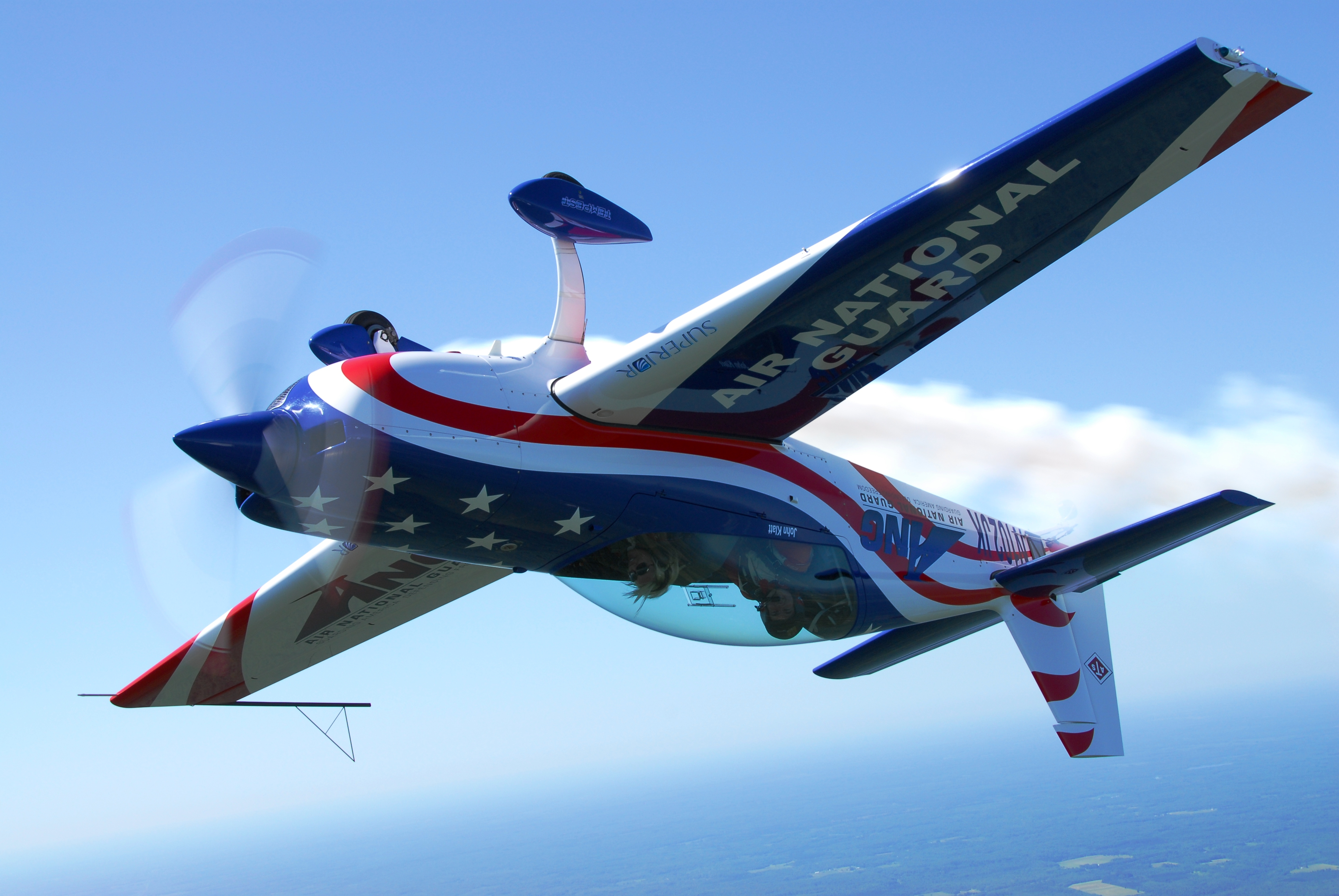 U.S. Air Force Maj. John Klatt flies a local reporter in the Air National Guard Staudacher S-300 aerobatic demonstration plane, prior to his performance in the Duluth Air Show, July 14th, 2008.